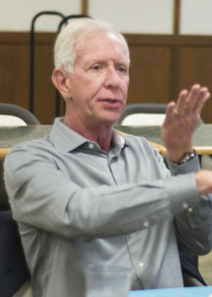 Former airline pilot Chesley "Sully" Sullenberger speaks with Marines during his lunch visit to Marine Corps Base Hawaii, Dec. 5. He sat down with Marines from several units at Anderson Hall Dining Facility and spoke about his 2009 emergency water landing and his current work with aviation safety. (U.S. Marine Corps photo by Christine Cabalo)